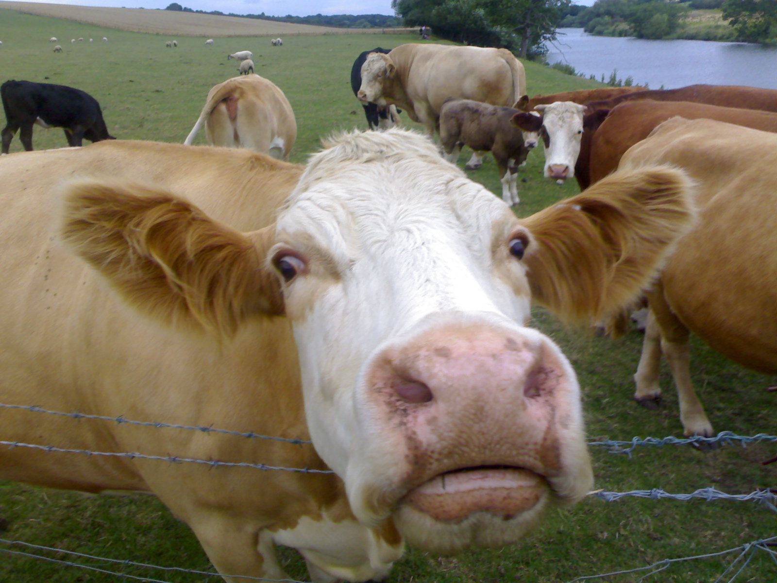 A cow's face. Taken 08 August 2006 in a field on the banks of the River Tees in Eaglescliffe